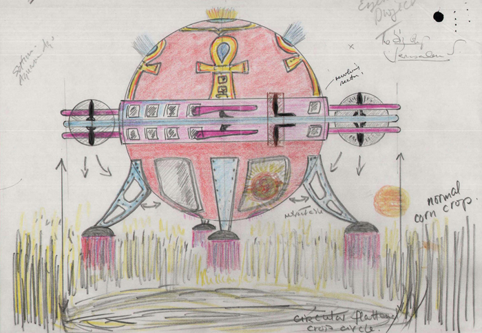 Description: Colour sketch sent to the Ministry of Defence of a ‘spaceship’ creating crop circles Date: 1998? Our Catalogue Reference: DEFE 24/1999 p.47 This image is from the collections of The National Archives. Feel free to share it within the spirit of the Commons. You can view the: latest UFO files transferred from the UK Ministry of Defence For high quality reproductions of any item from our collection please contact our image library.